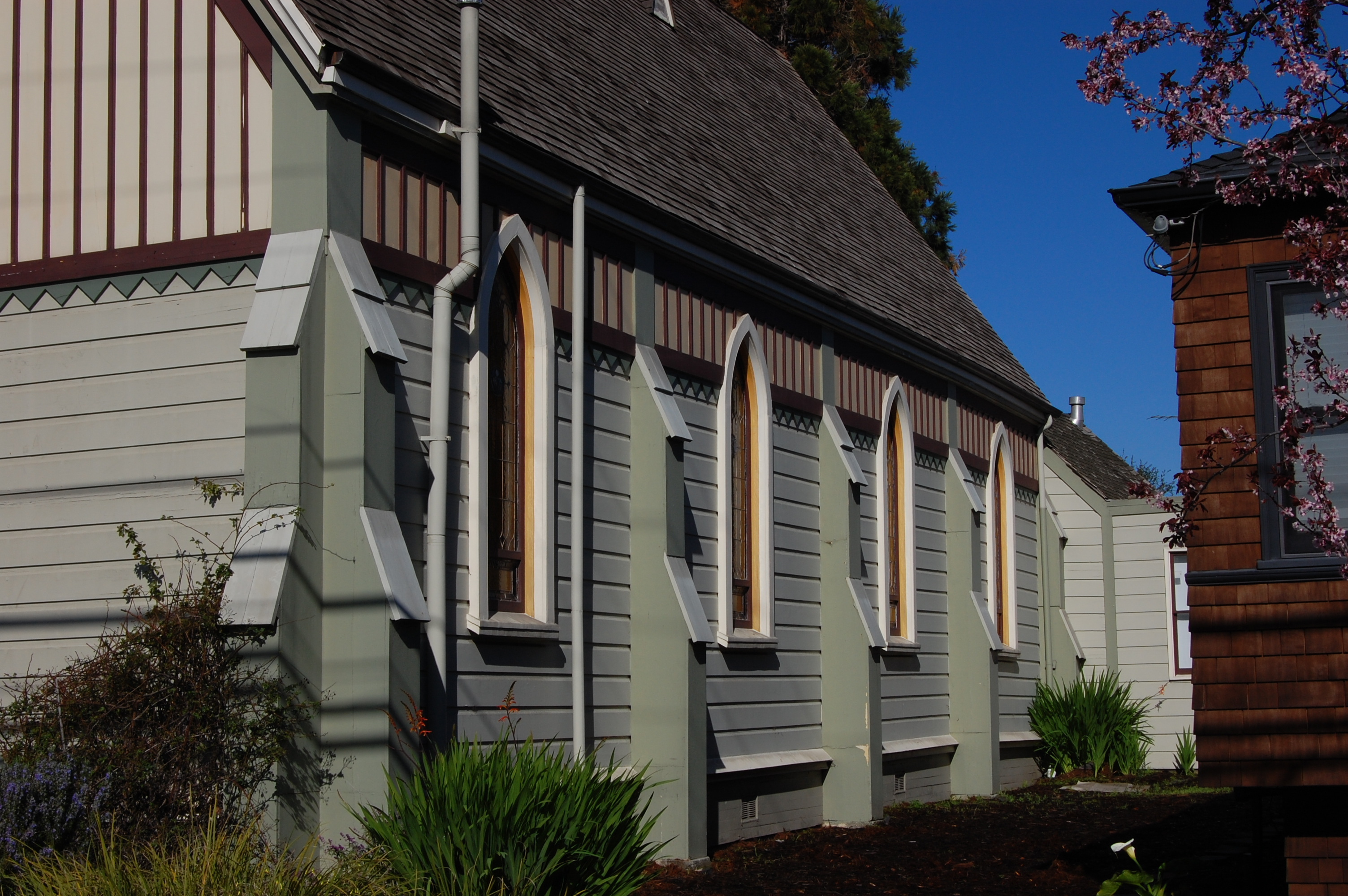 Episcopal Church of the Good Shepherd. 1001 Hearst Avenue. Berkeley, California, USA